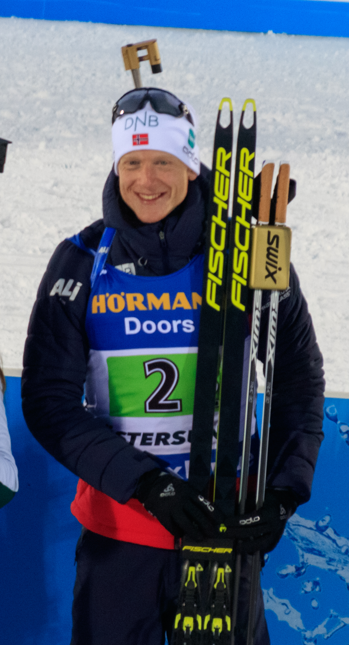 Johannes Thingnes Bø at World Championschip in Östersund 2019